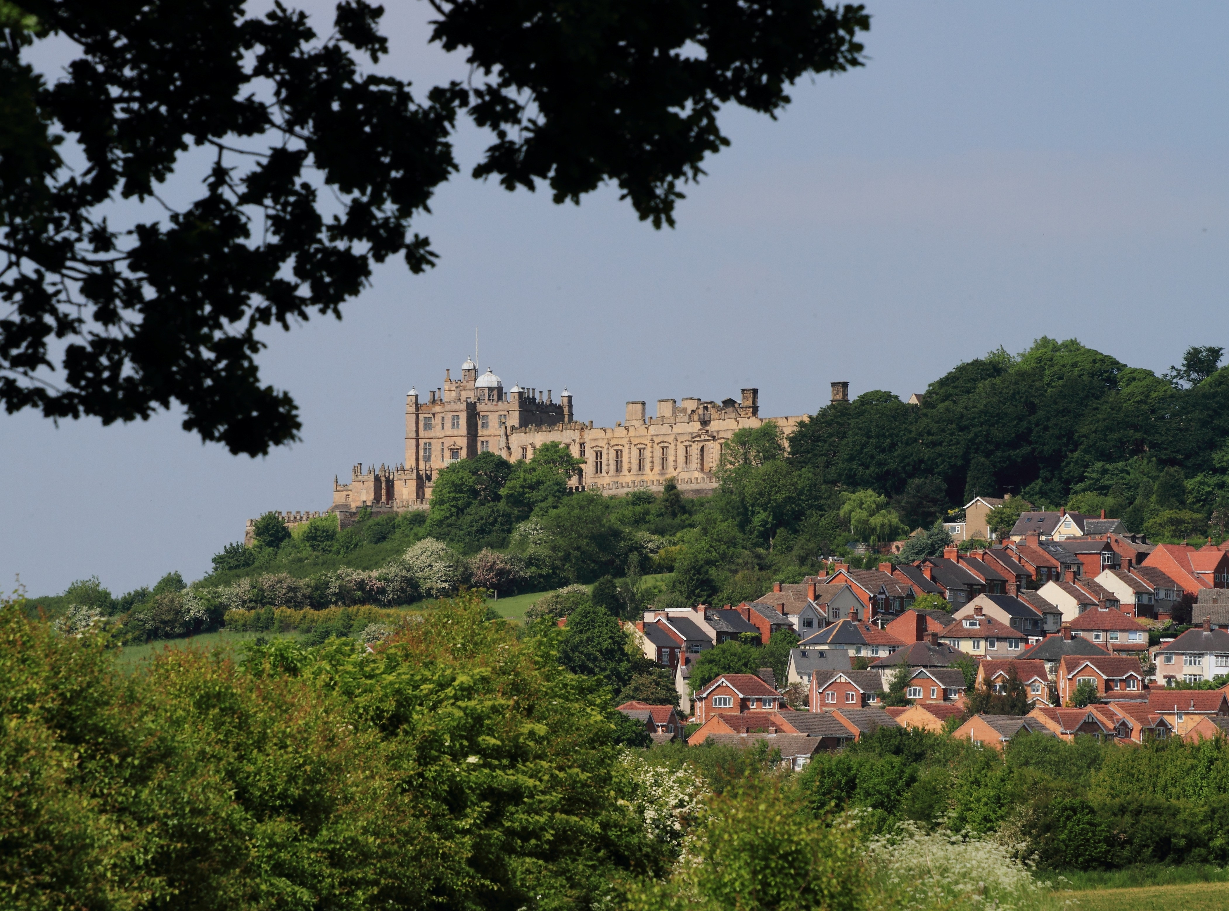 Bolsover Castle viewed from the Stockley Trail